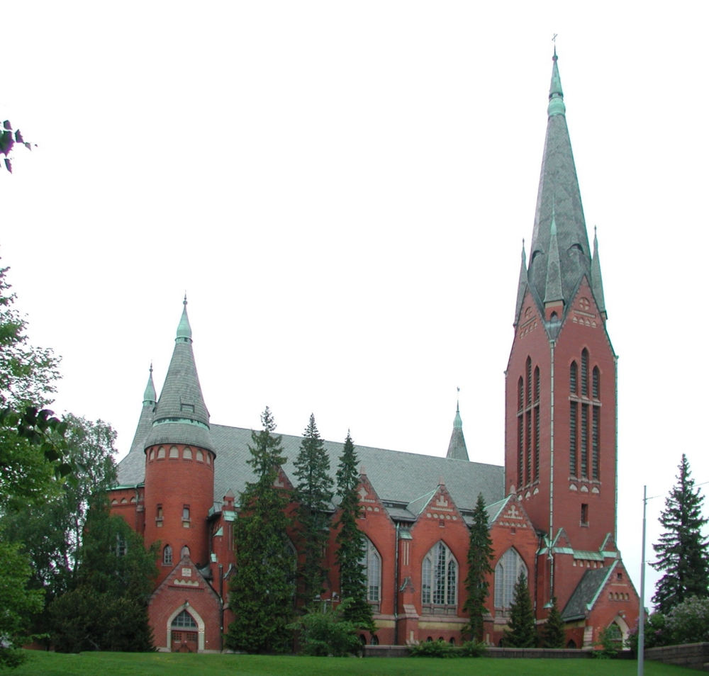 St. Michael's Church in Turku, Finland. The church has been designed by Lars Sonck and built in 1899–1905.